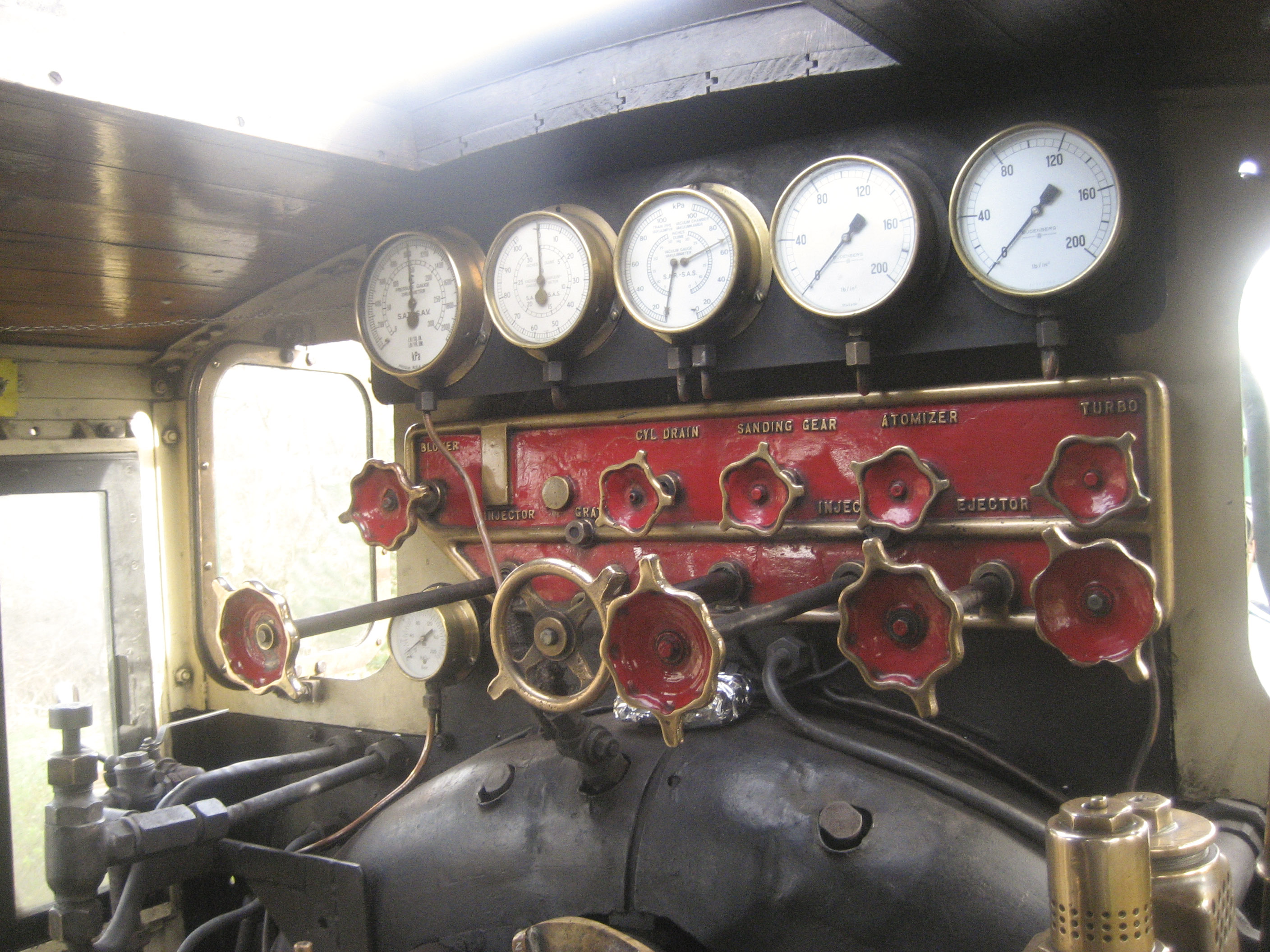 Controls of Beyer Garratt locomotive No. 138 on the Welsh Highland Railway